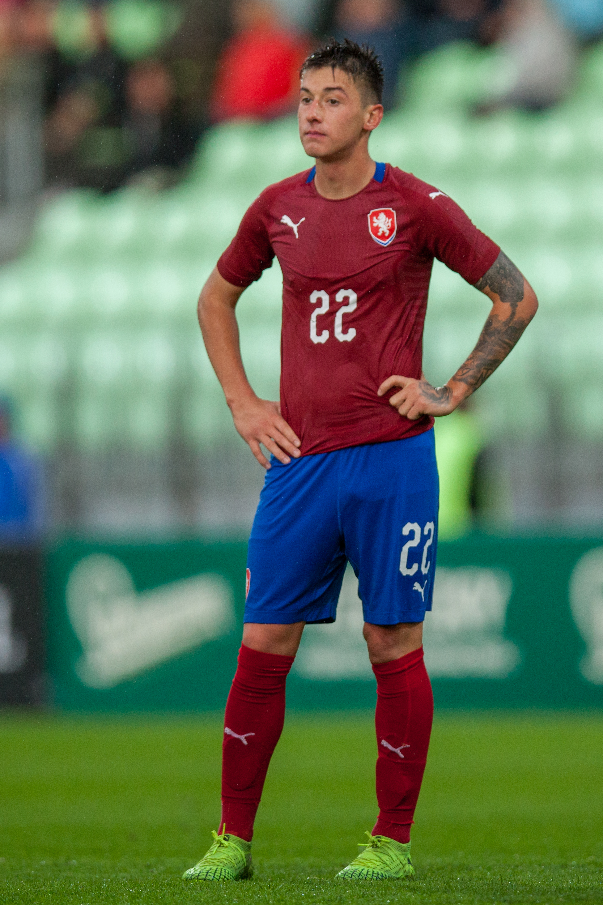 Antonín Vaníček in an internatinoal association football match of European Under-21 Championship Qualifying Round between the Czech Republic and Greece, Městský stadion Karviná, Karviná District, Moravian-Silesian Region, Czechia Personality rights warningAlthough this work is freely licensed or in the public domain, the person(s) shown may have rights that legally restrict certain re-uses unless those depicted consent to such uses. In these cases, a model release or other evidence of consent could protect you from infringement claims.